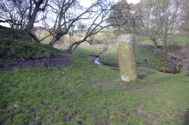 Pasture, Bradley Burn and Roman milestone, near Vindolanda Just to the north of the line of the Stanegate Roman road. The fort at Vindolanda lies about 130m to the southwest. The mound to the left (only part of which can be seen) is shown on OS maps as a tumulus.